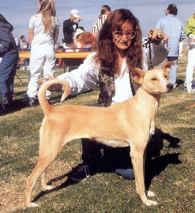 Maria Gkinala (author) and Cretan Hound (female)